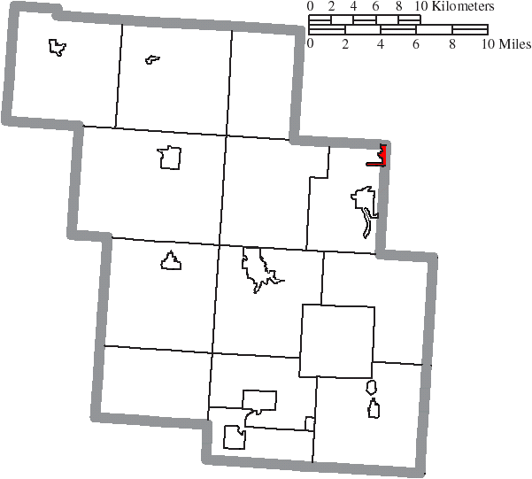 Map of the municipal and township boundaries of Perry County, Ohio, United States, as of the 2000 census, with the location of the village of Roseville highlighted. Township borders are shown only in unincorporated areas in order to differentiate incorporated and unincorporated areas more clearly.